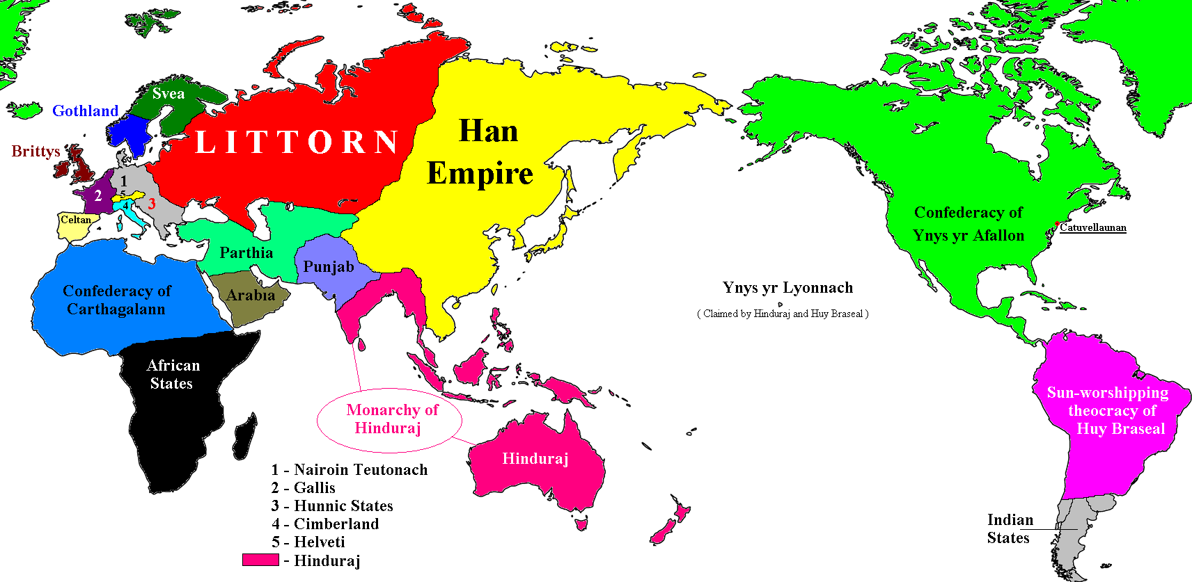 A map of the world of the Delenda Est novella by Poul Anderson.